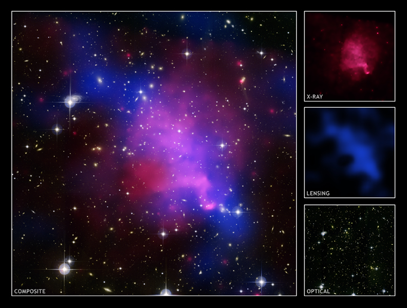 Abell 520 "Train Wreck" cluster, composite view